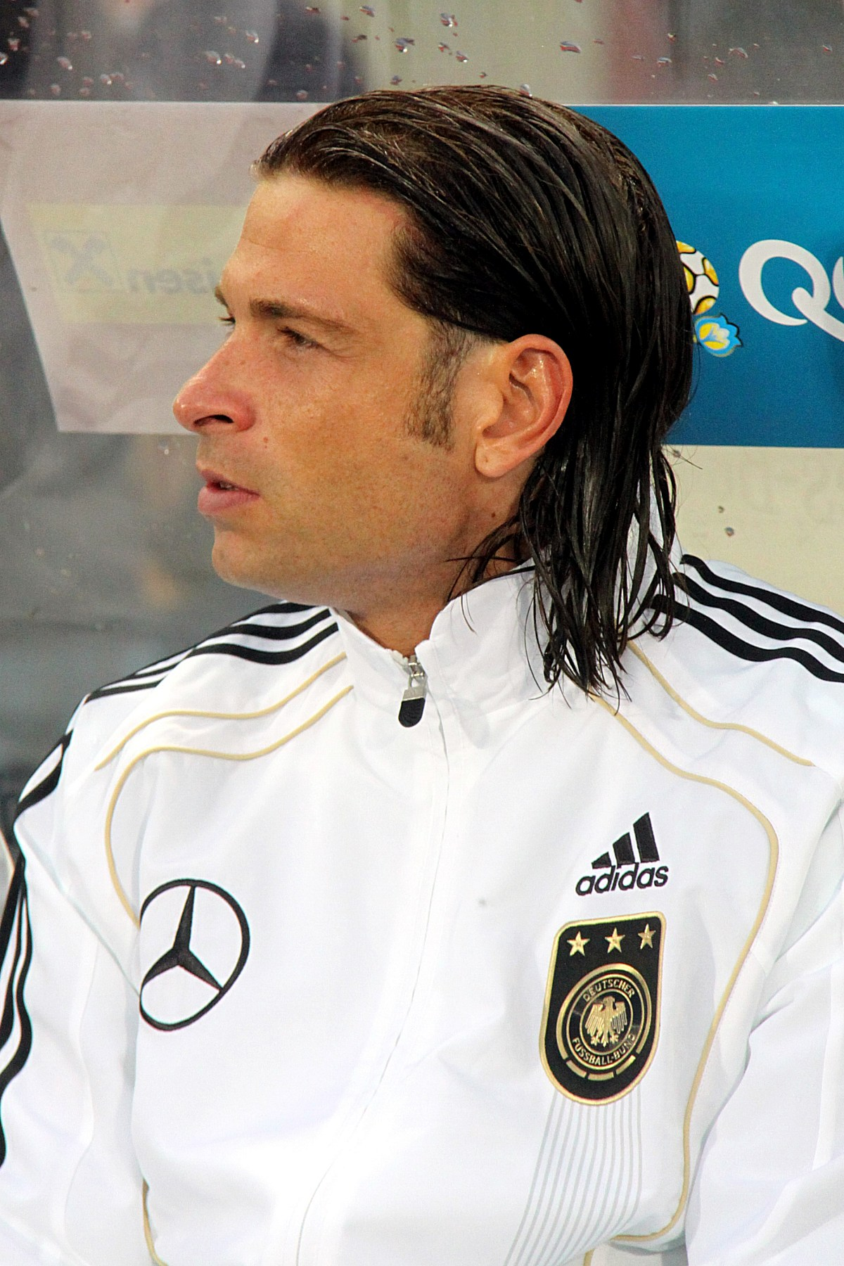 Tim Wiese (Werder Bremen), german national football team